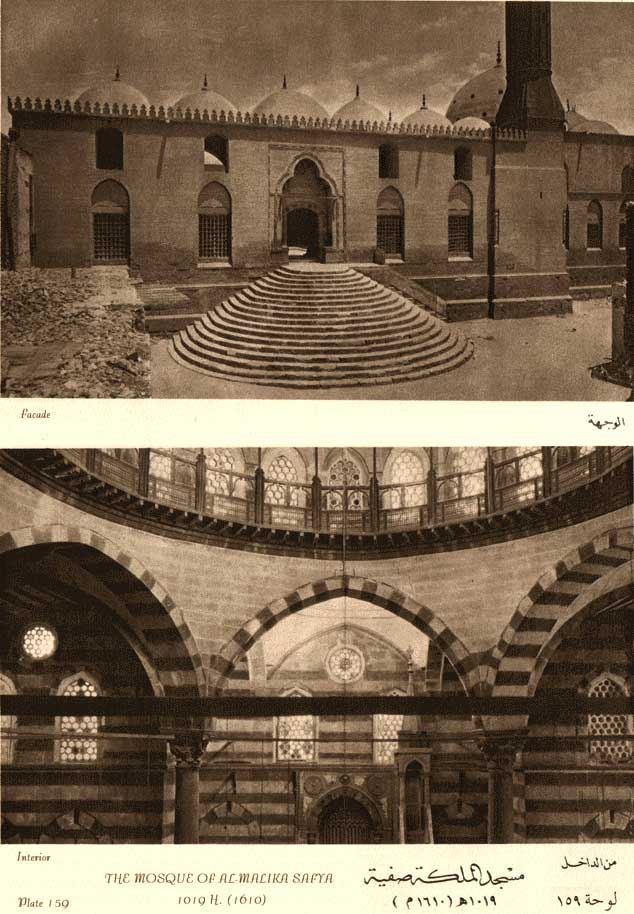 Bird's-eye view of Al-Malika Safiyya Mosque